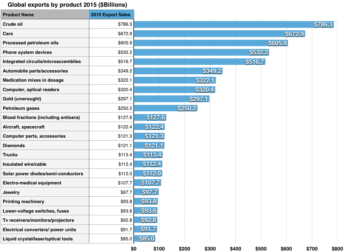 Most traded export products 2015